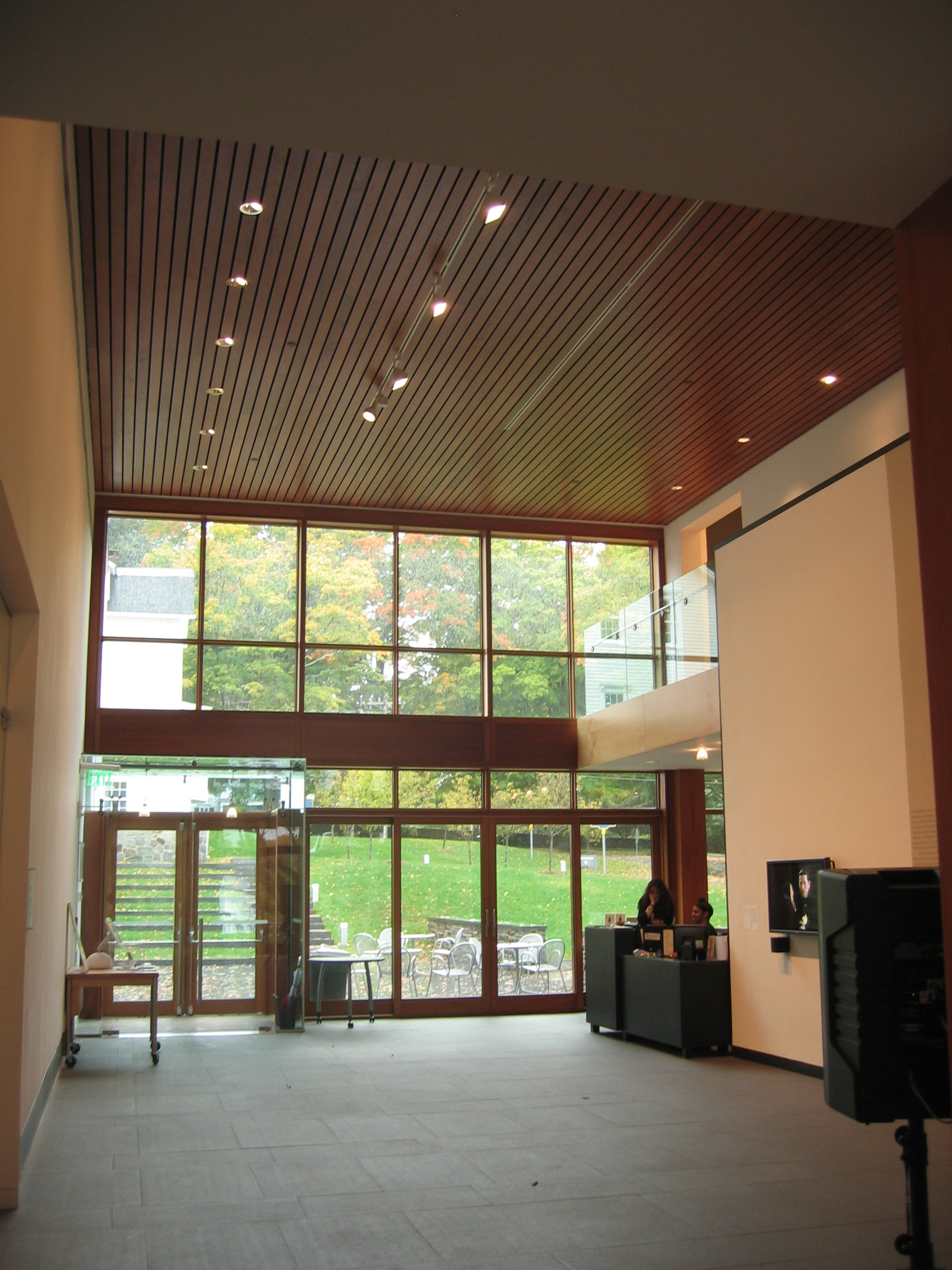 The Aldrich Contemporary Art Museum (Ridgefield, Connecticut). Central Hall.